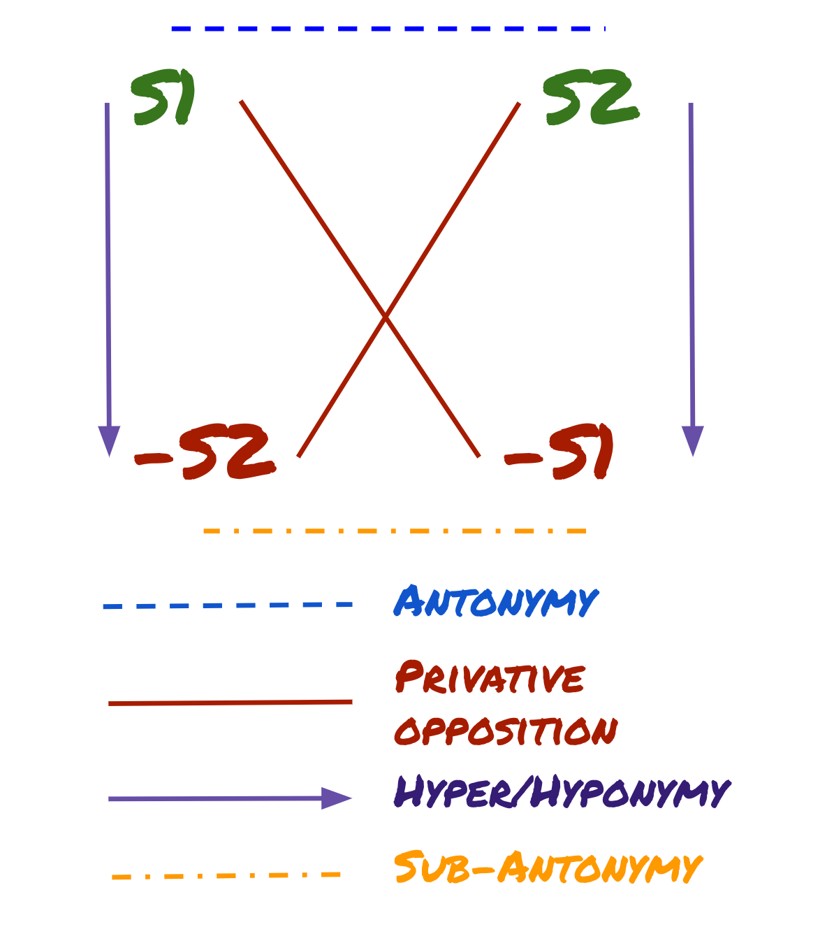 Semiotic square with the typology of oppositions and the respective logical relations